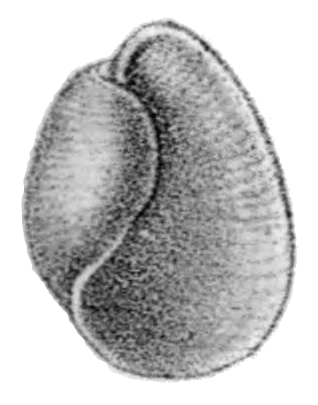 Drawing of apertural view of the shell of Bullacta exarata.